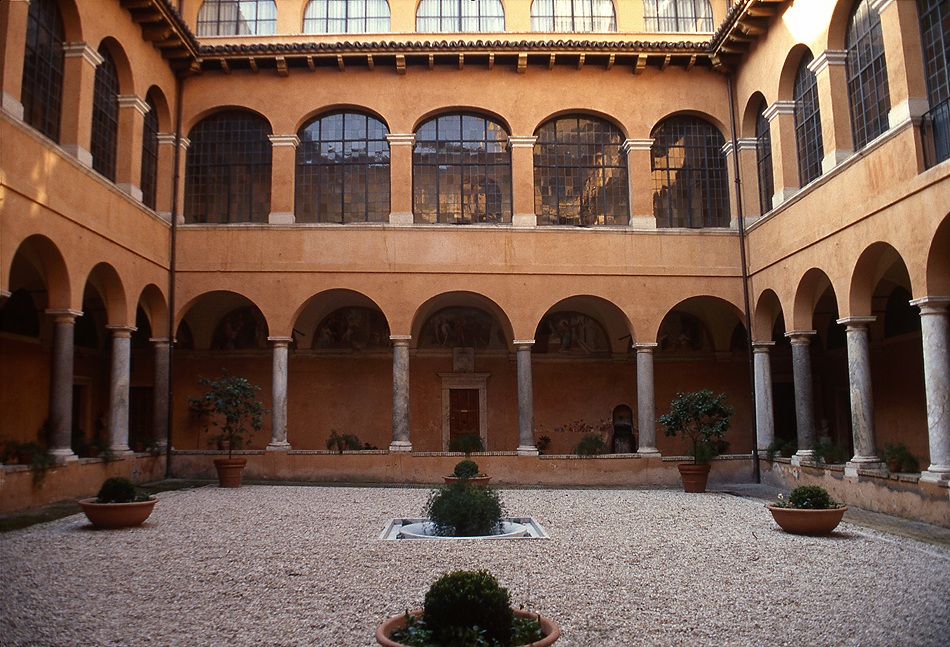 Reale Accademia di Spagna a Roma. Cloister.